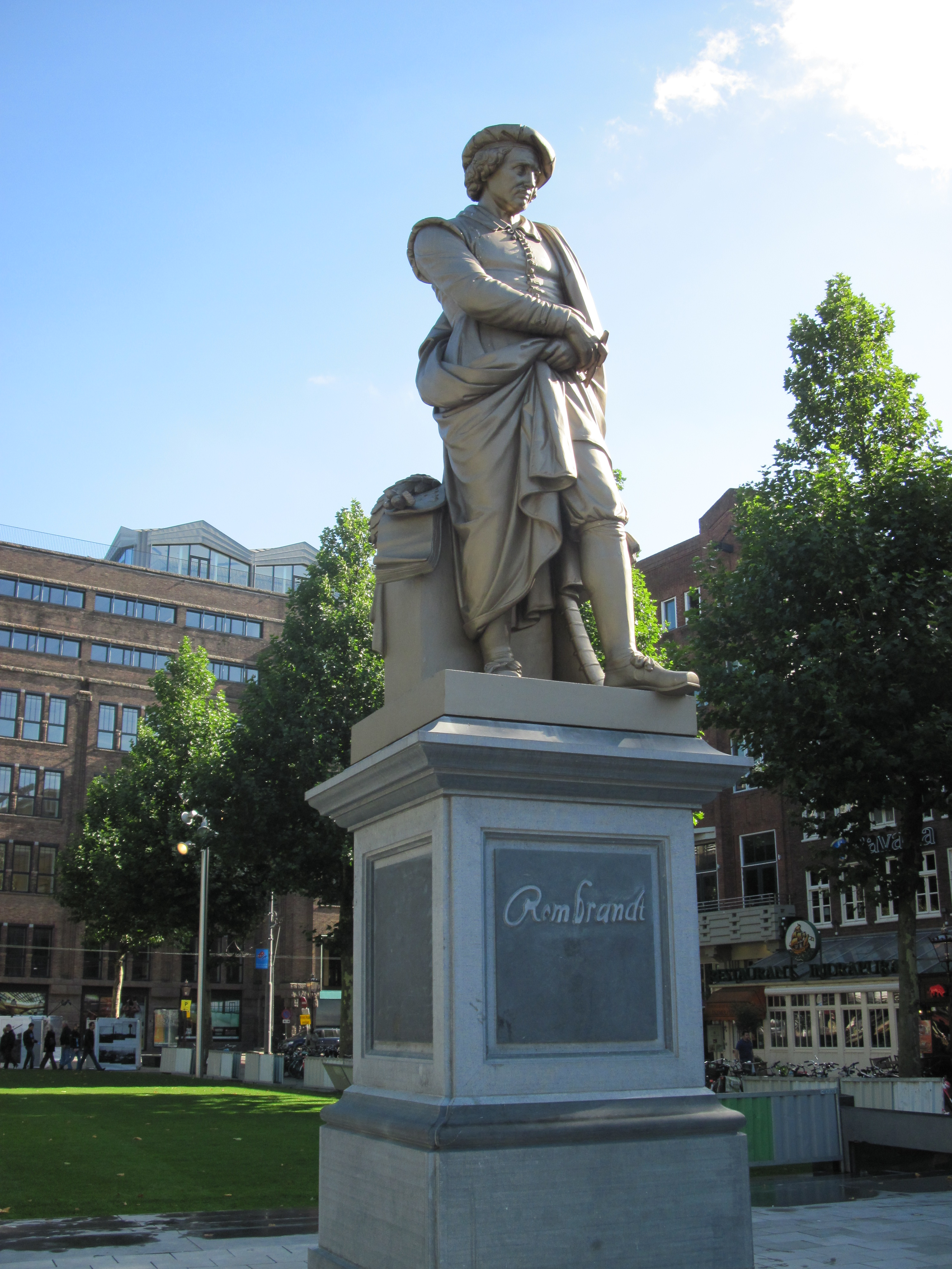 Rembrandt